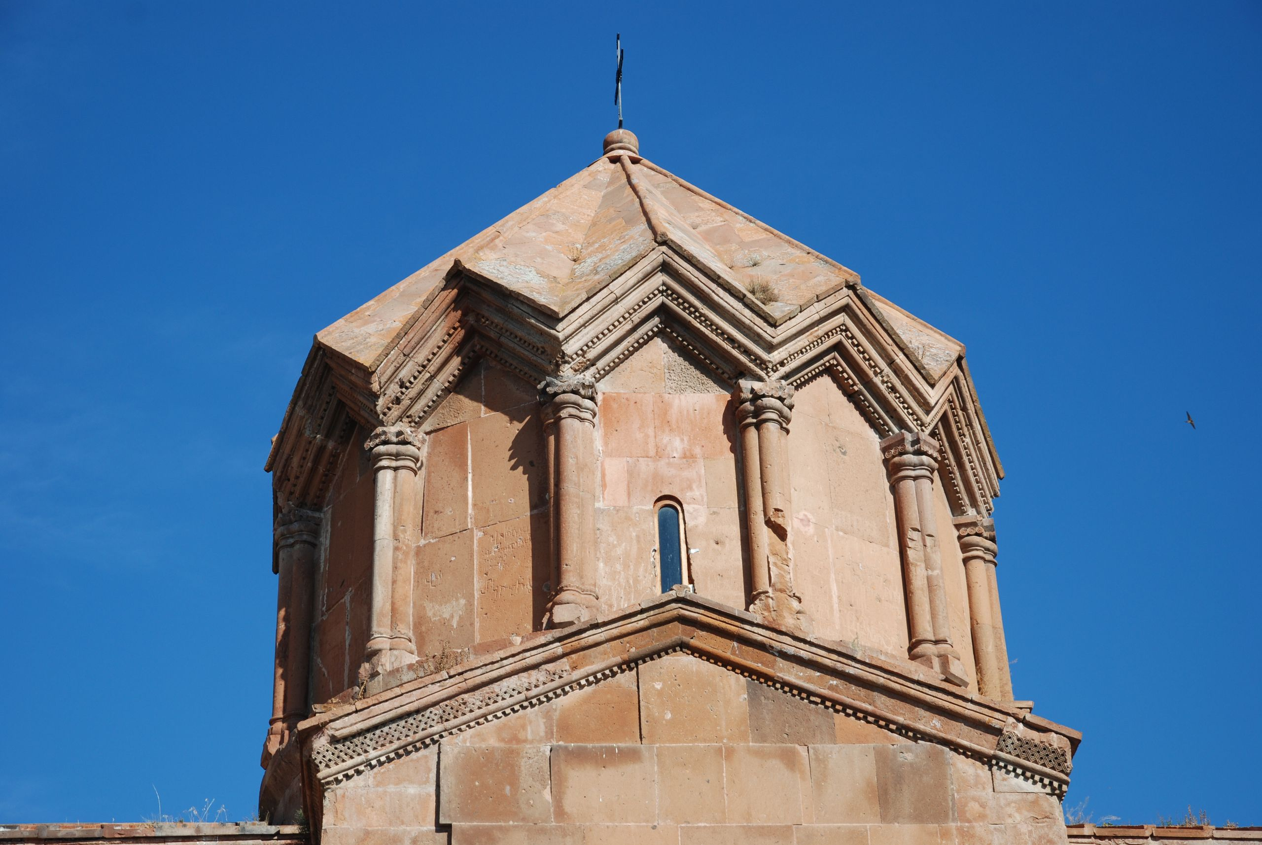 Marmashen, main church